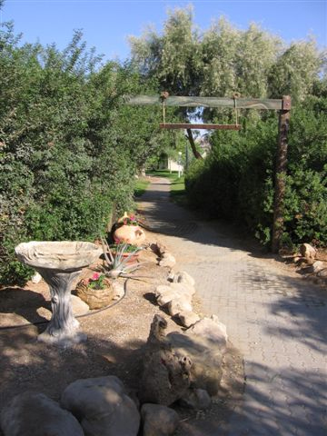 elifaz